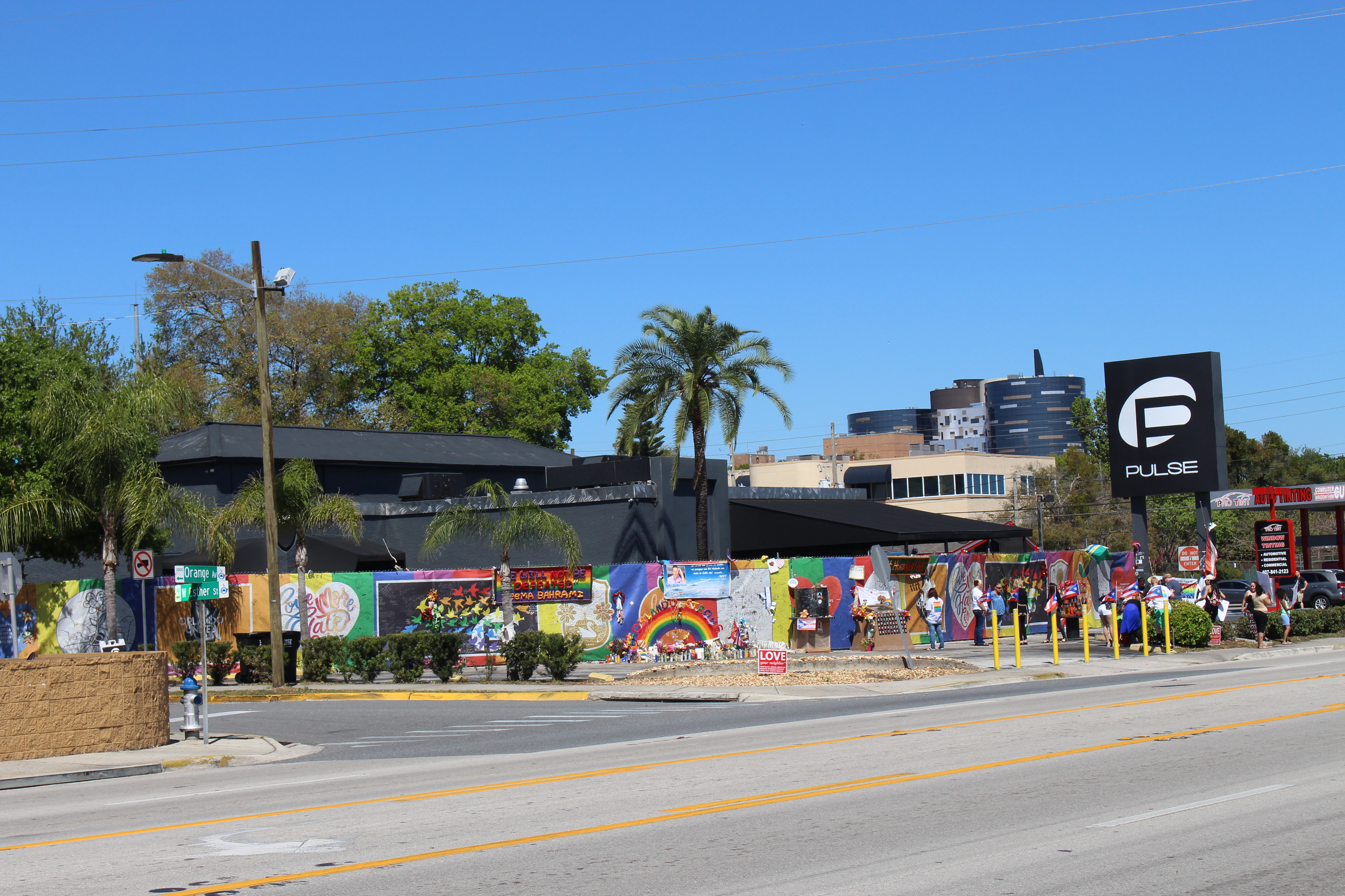 Orlando, Orange County, Florida